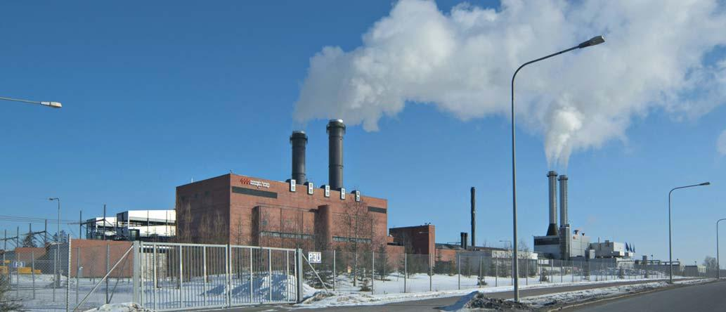 Natural gas power plant of Helsingin Energia in Vuosaari, Helsinki